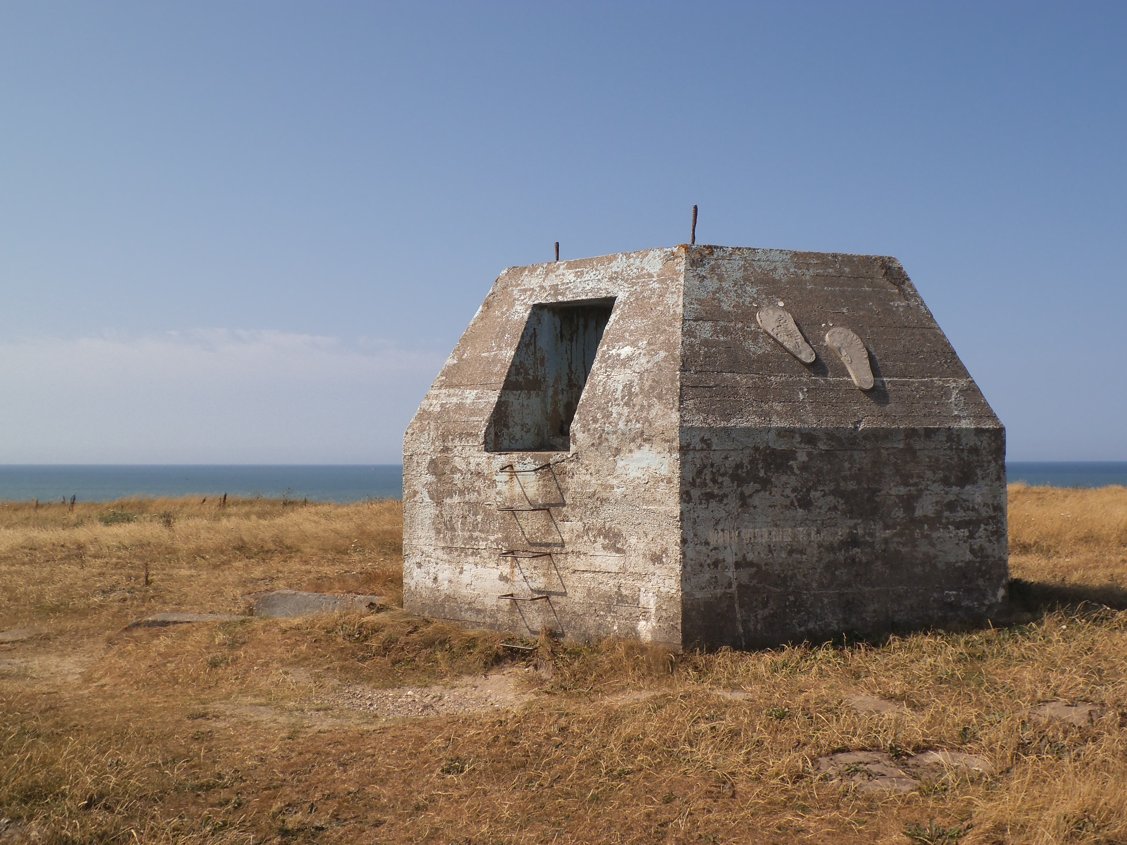 Würzburg-Riese concrete foundations at Bovbjerg Fyr, Denmark. It has been artistically modified.